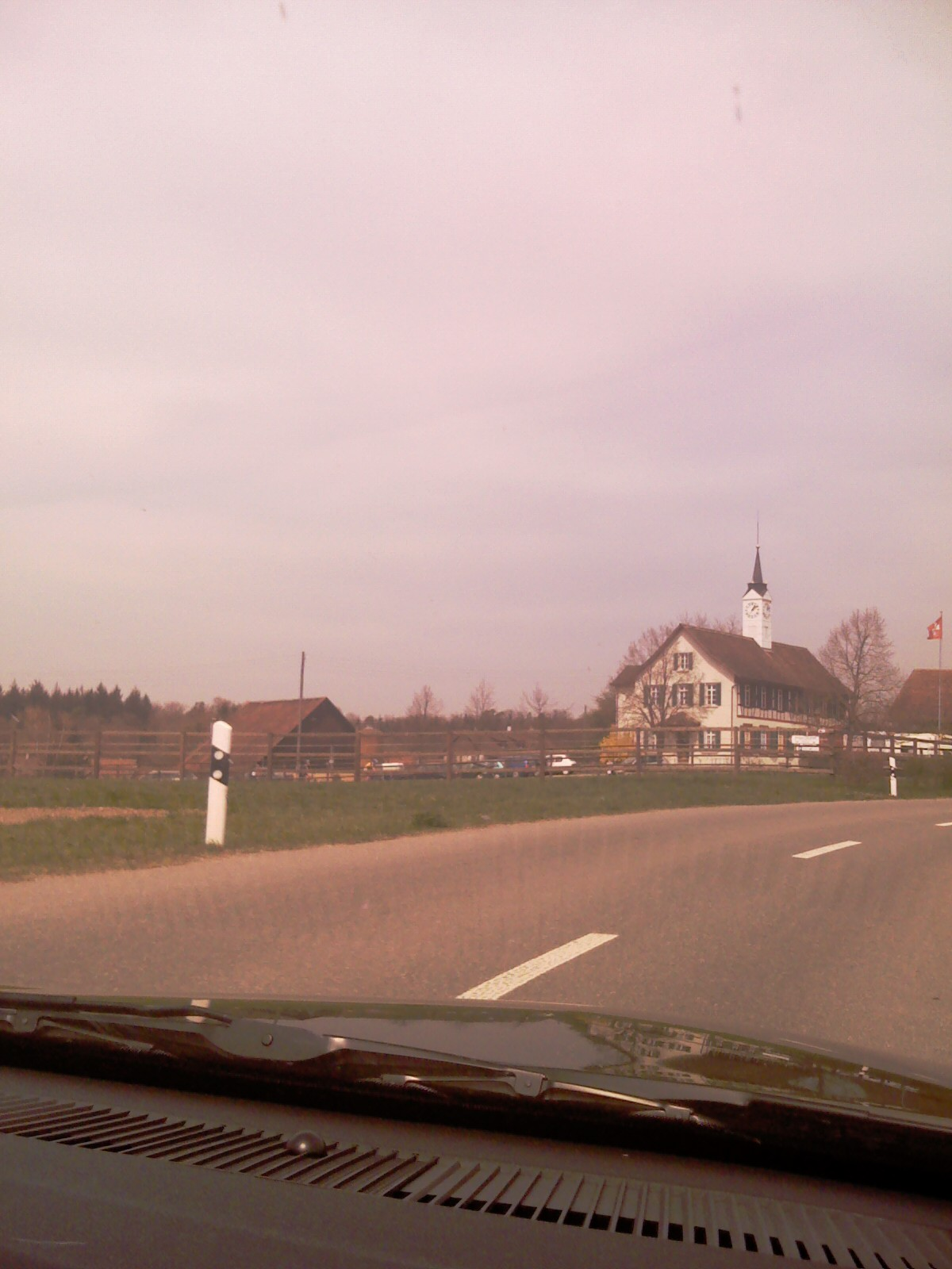 Church of Ellikon am Rhein, municipality of Marthalen, canton of Zürich, SwitzerlandEsperanto: Preĝejo de Ellikon ĉe Rejno, komunumo Marthalen, Kantono Zuriko, Svislando